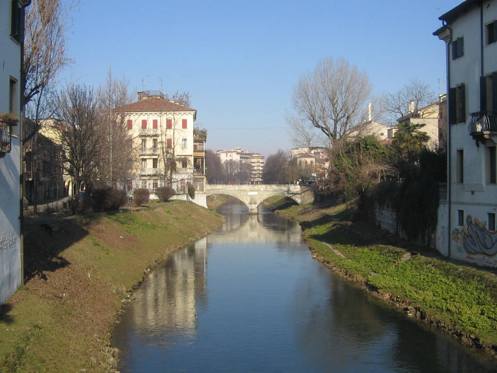 Vista della riviera San Benedetto, Padova - Italia, la città è ricca di vie d'acqua. A view of the riviera San Benedetto, Padua - Italy, the city has a lot of river. Made by Piero tasso the 22 of January, 2006